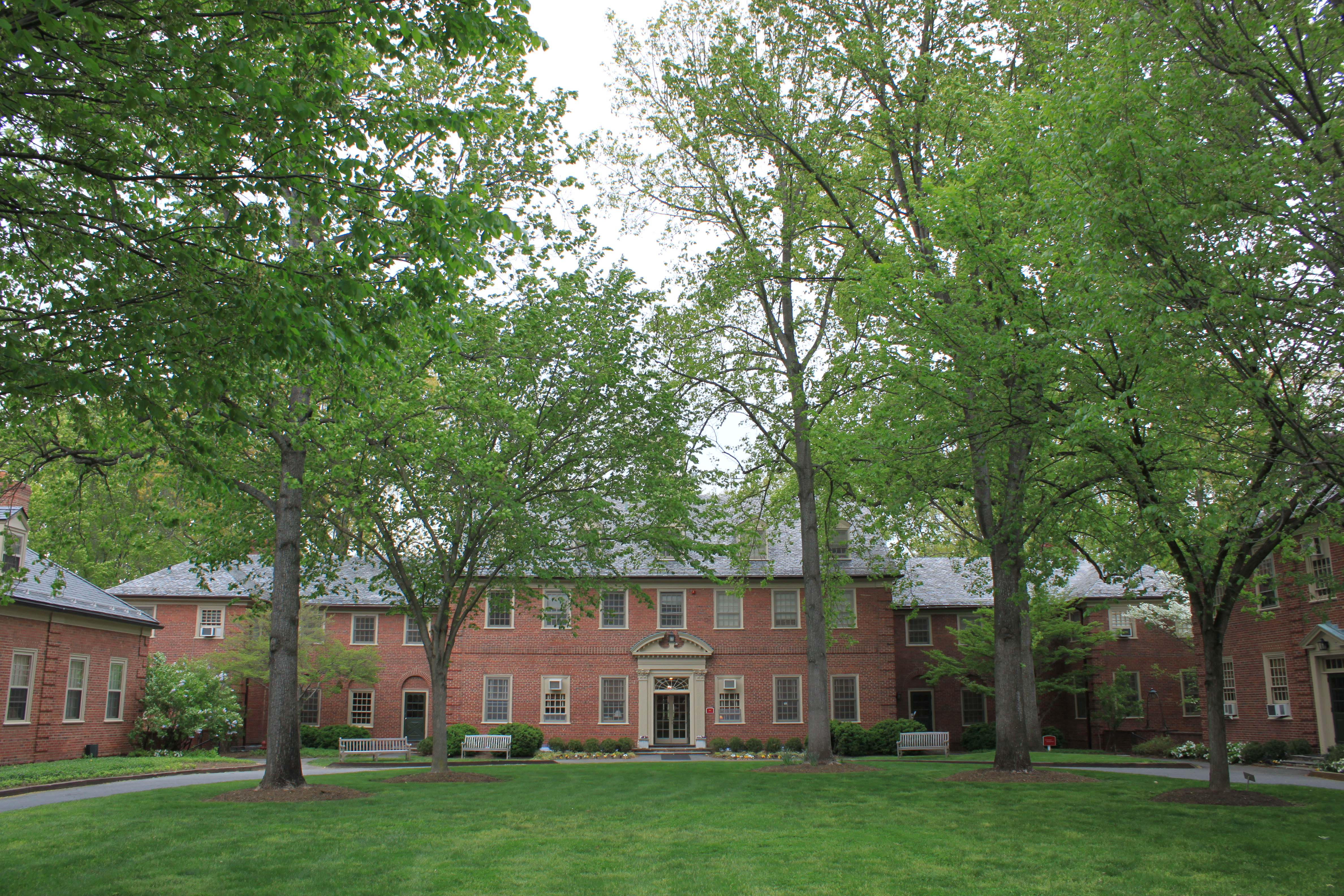 Main dormitory and the front oval at The Madeira School in McLean, VA. Photo taken in 2011.